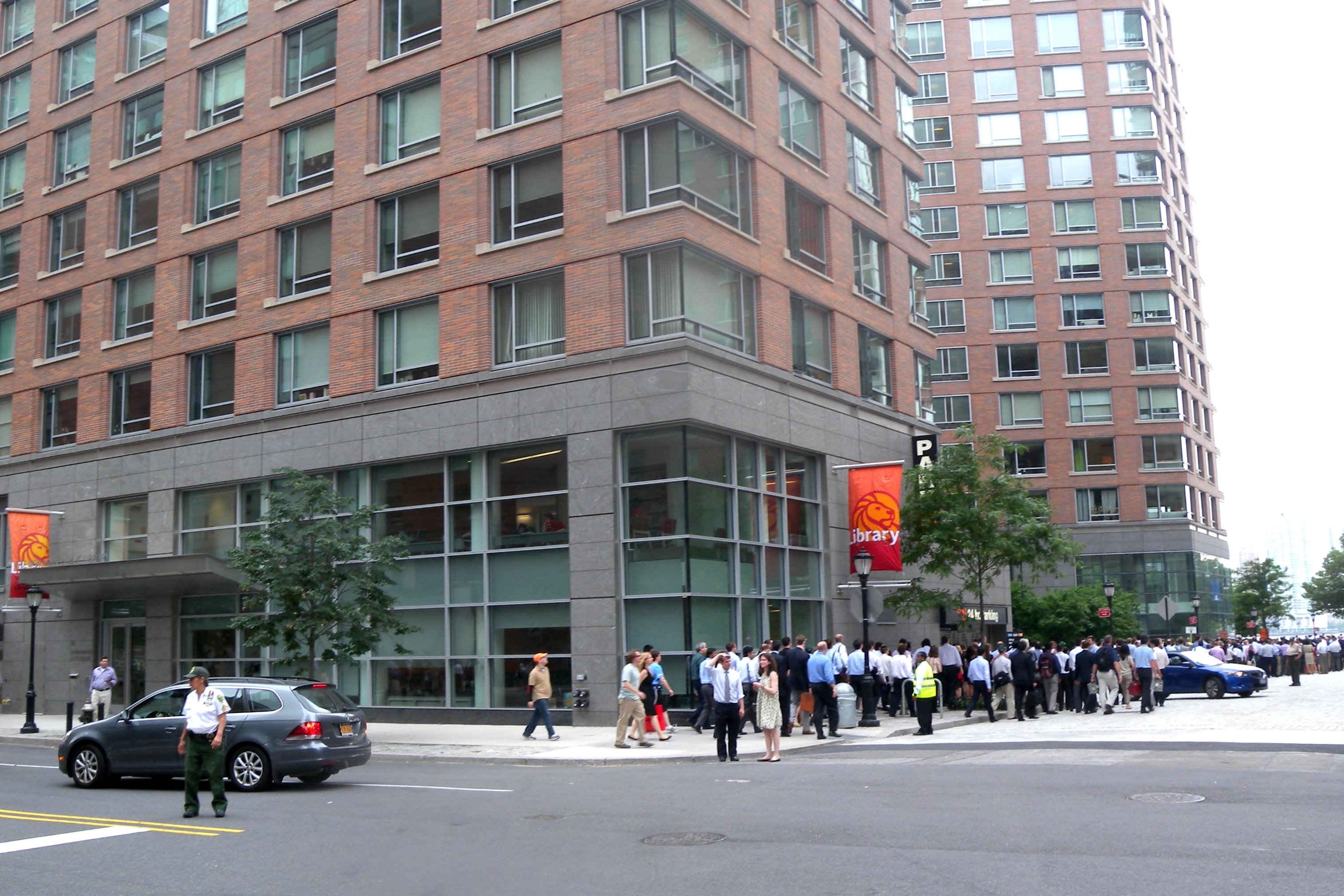 Looking west at library on a cloudy afternoon with WFC evacuation drill in progress.